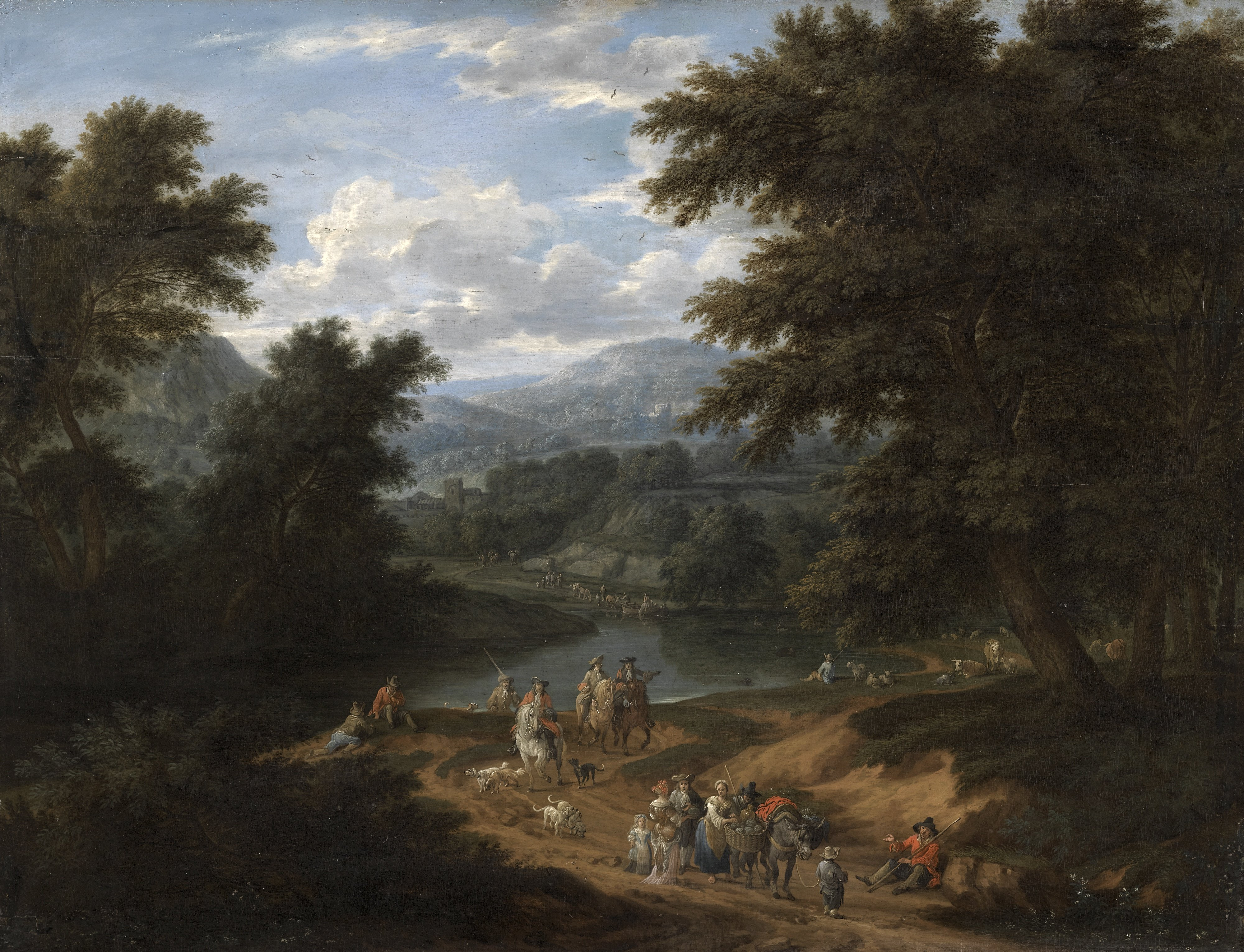 A Landscape with Travellers on a Path, oil on panel painting by Mathys Schoevaerdts